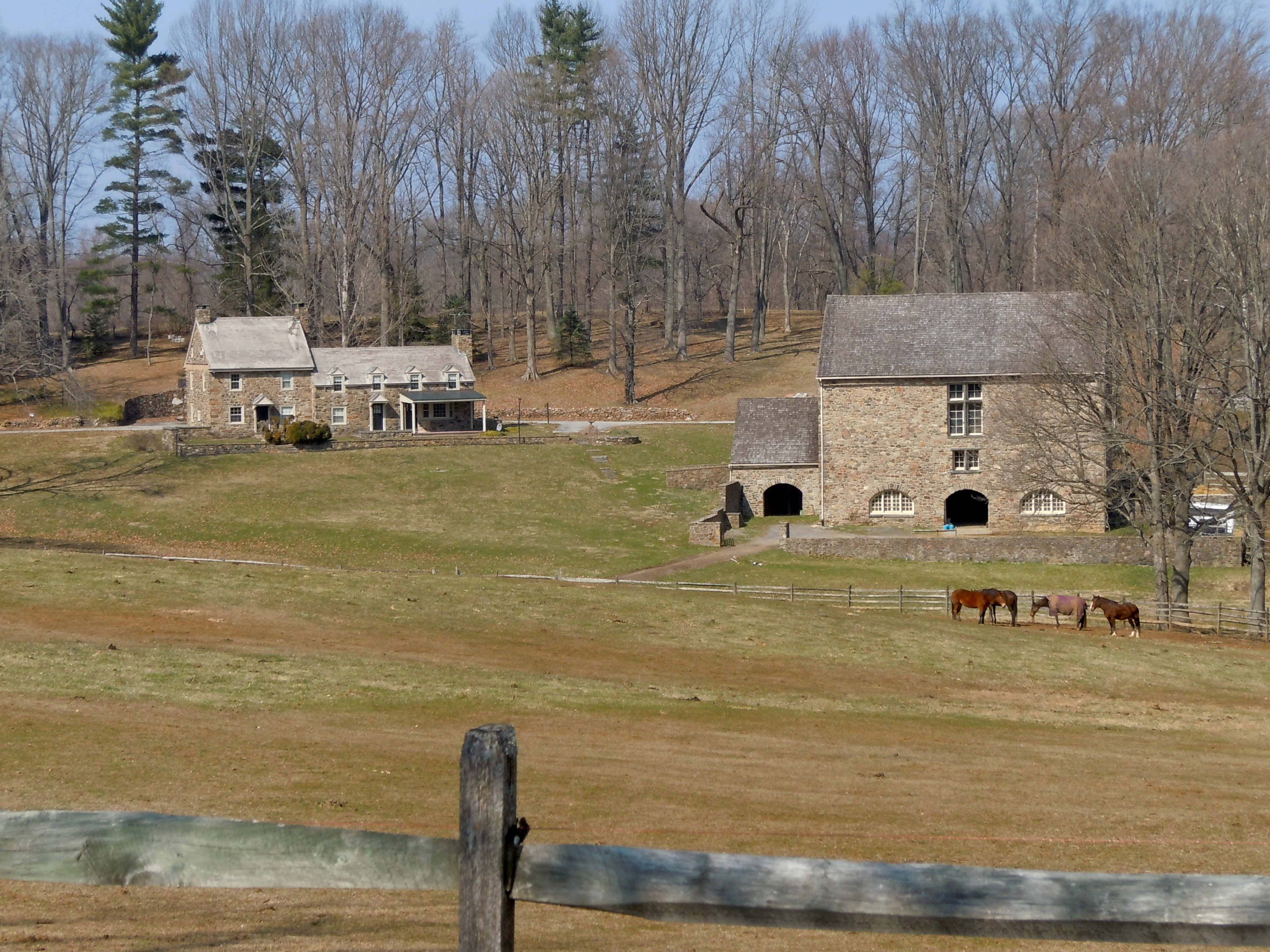 House and barn in Worth-Jefferis Rural Historic District, on the NRHP since April 27, 1995. The Historic District goes roughly along Lucky Hill, North Wawaset, Allerton, and Creek Roads, near Marshallton, in East and West Bradford Townships, Chester County, Pennsylvania. These buildings have the approx. address of 87 Lucky Hill Rd.